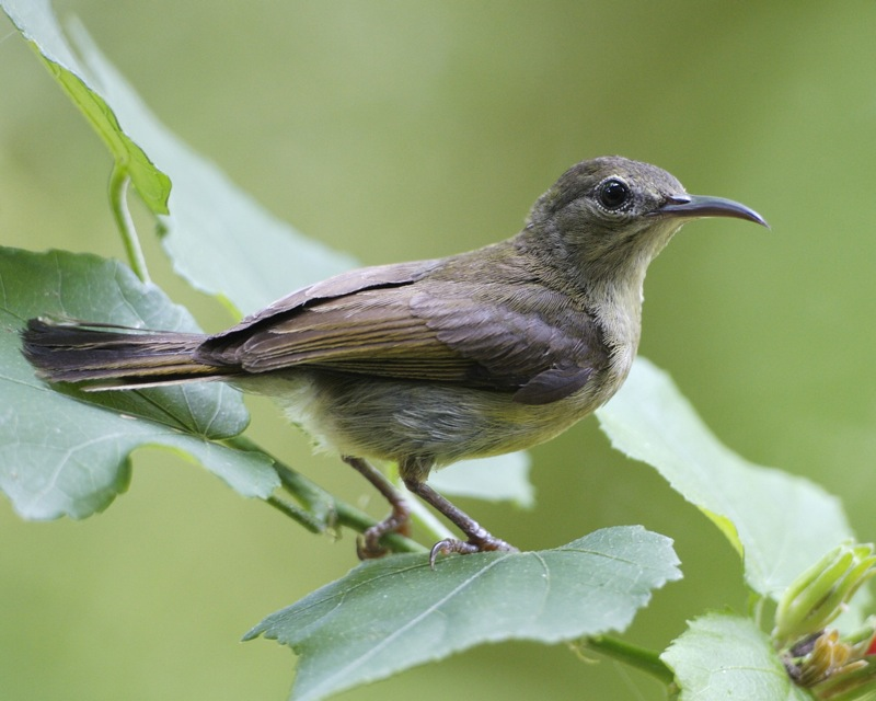 Crimson Sunbird - female Aethopyga siparaja ssp Aethopyga siparaja siparaja Location : Residential Garden, Merryn Road, Singapore 18th. May 2008 690V6585